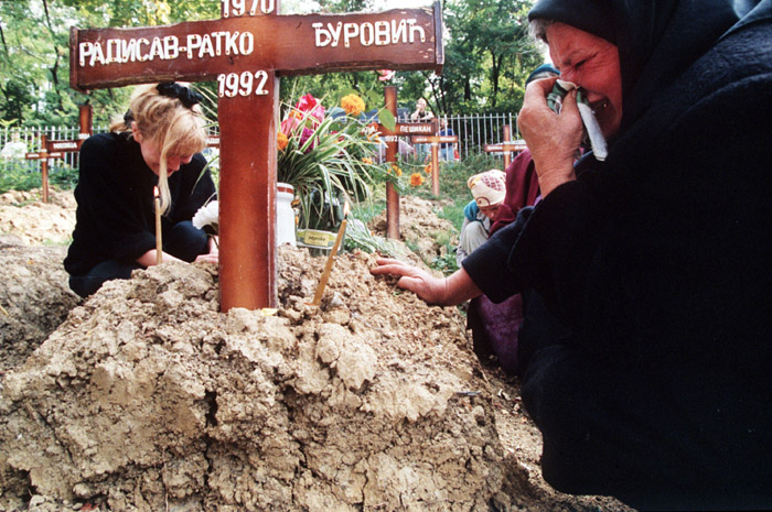 A woman mourns at a grave at the Lion's cemetery in Sarajevo, 1992.